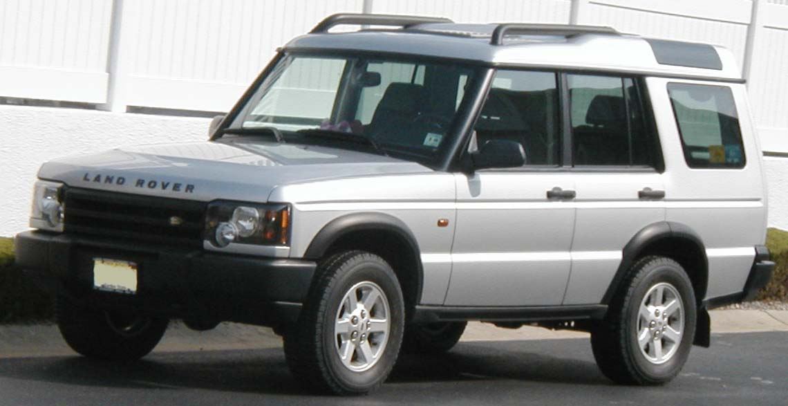 2003-2004 Land Rover Discovery photographed in USA.